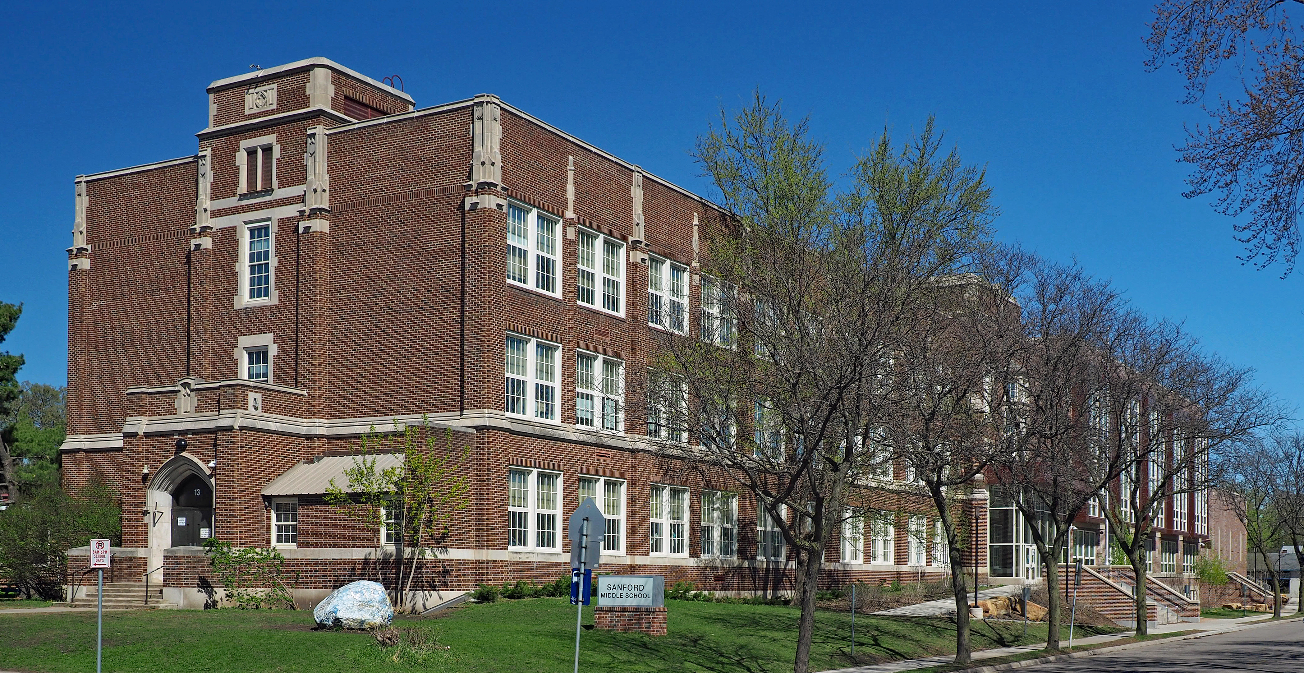 Sanford Middle School, 3524 42nd Ave S, Minneapolis, Minnesota, USA. Viewed from the southeast.